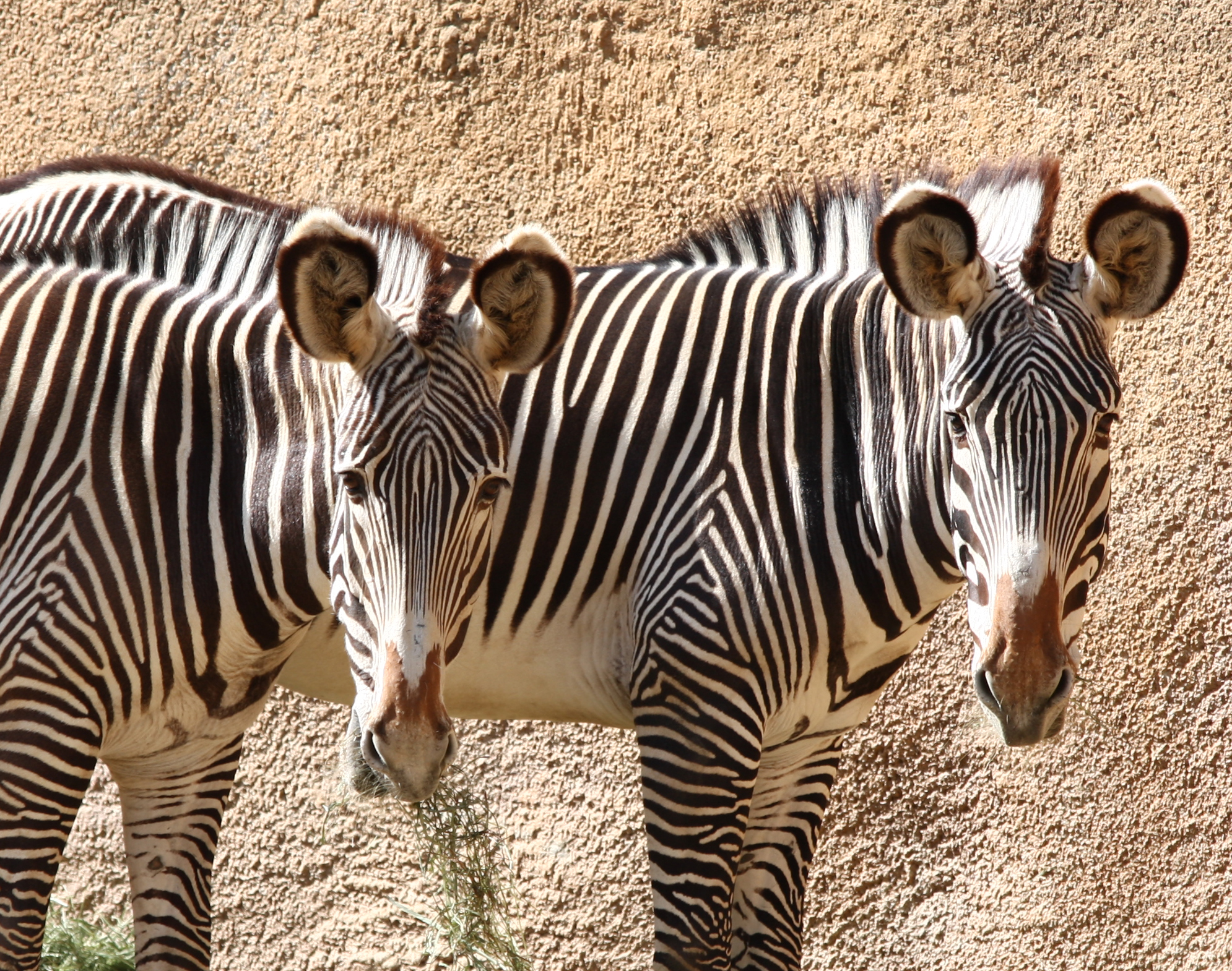 Two Grévy's-Zebras (Equus grevyi)